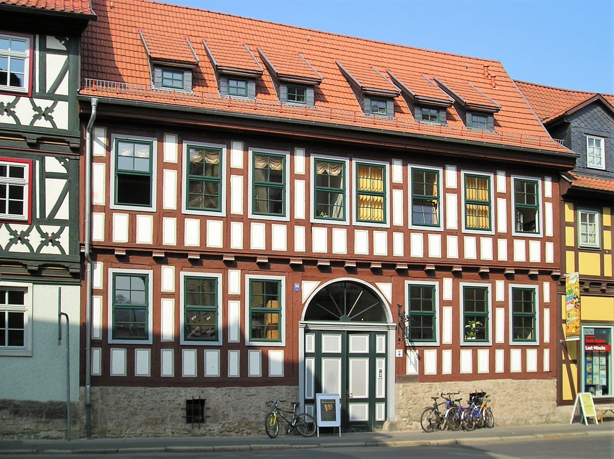 Timber framing House in Meiningen, germany